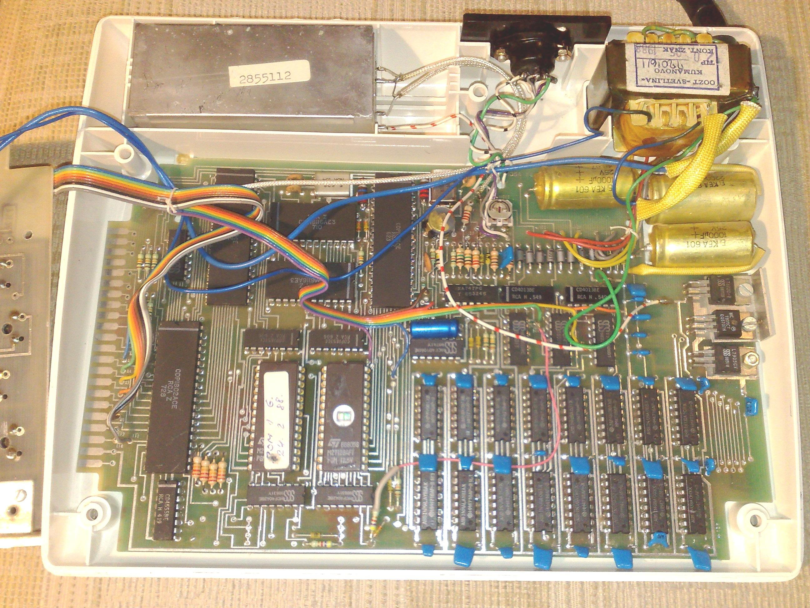 Pecom 64 main board